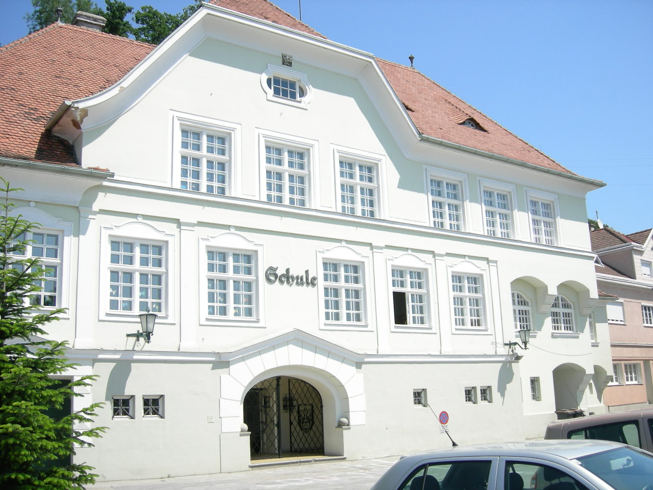 School in.